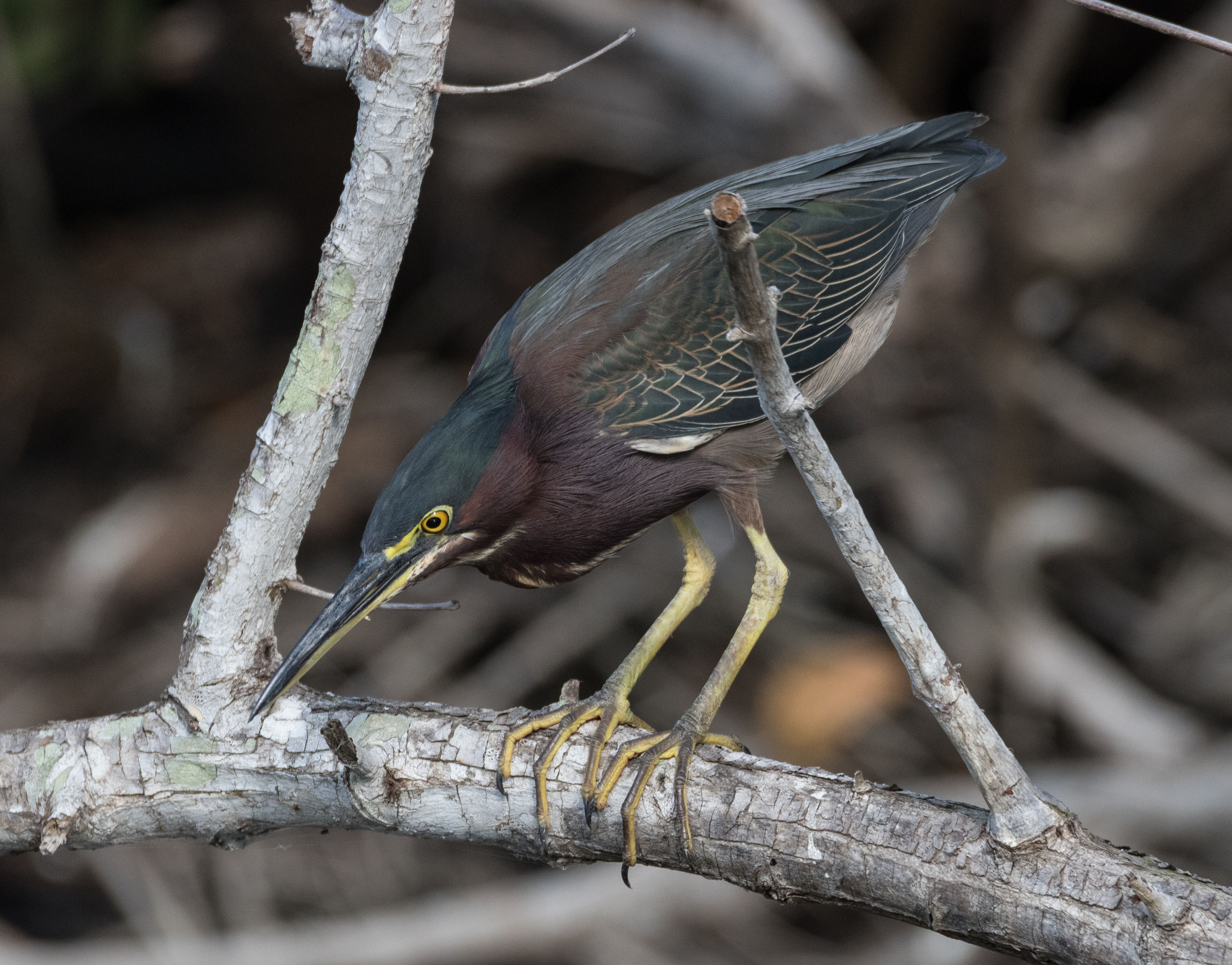 Butorides virescens stalking the prey in La Manzanilla, Jalisco, Mexico.